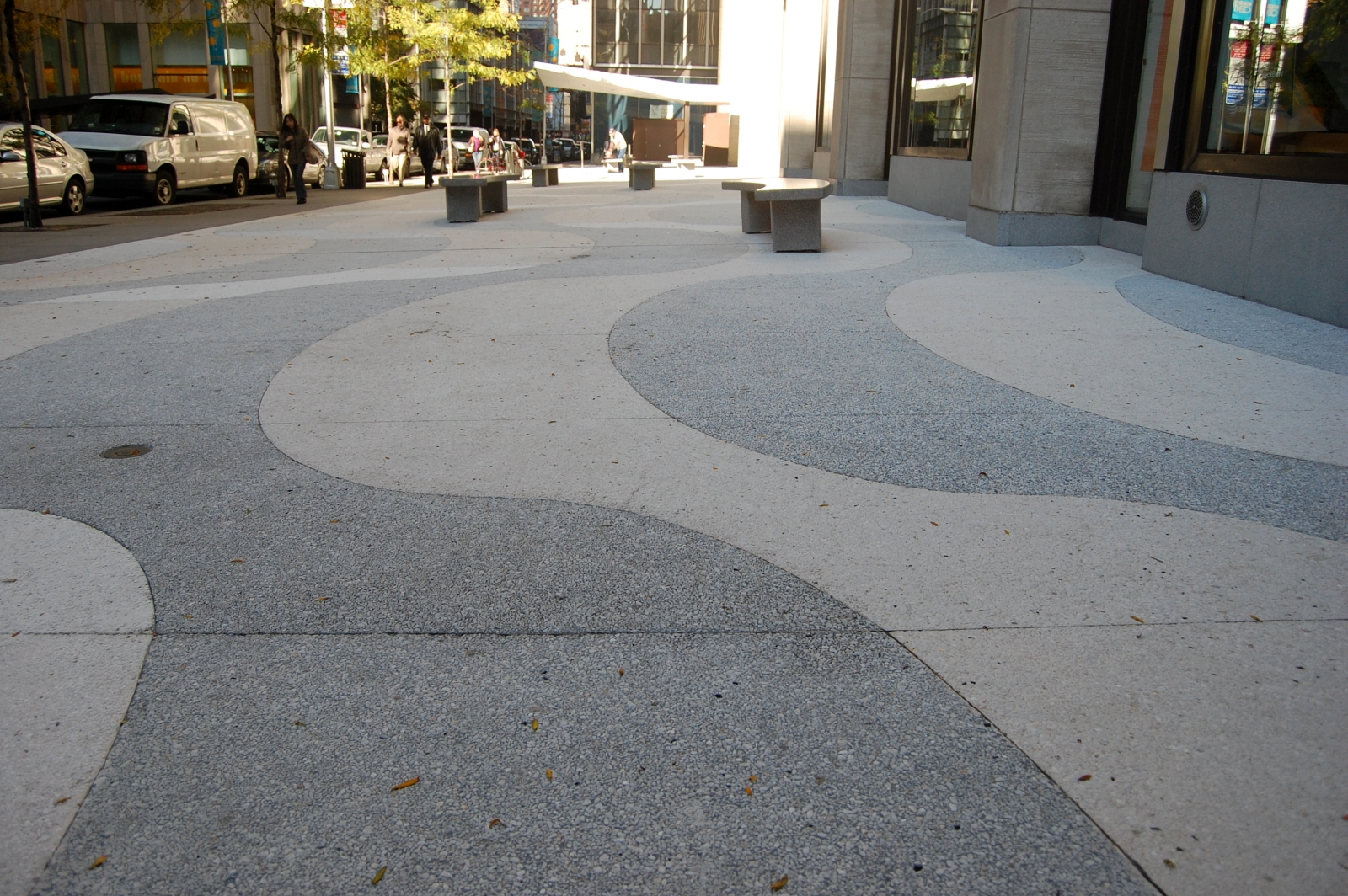 The sidewalk outside the Time Life Building in New York City.